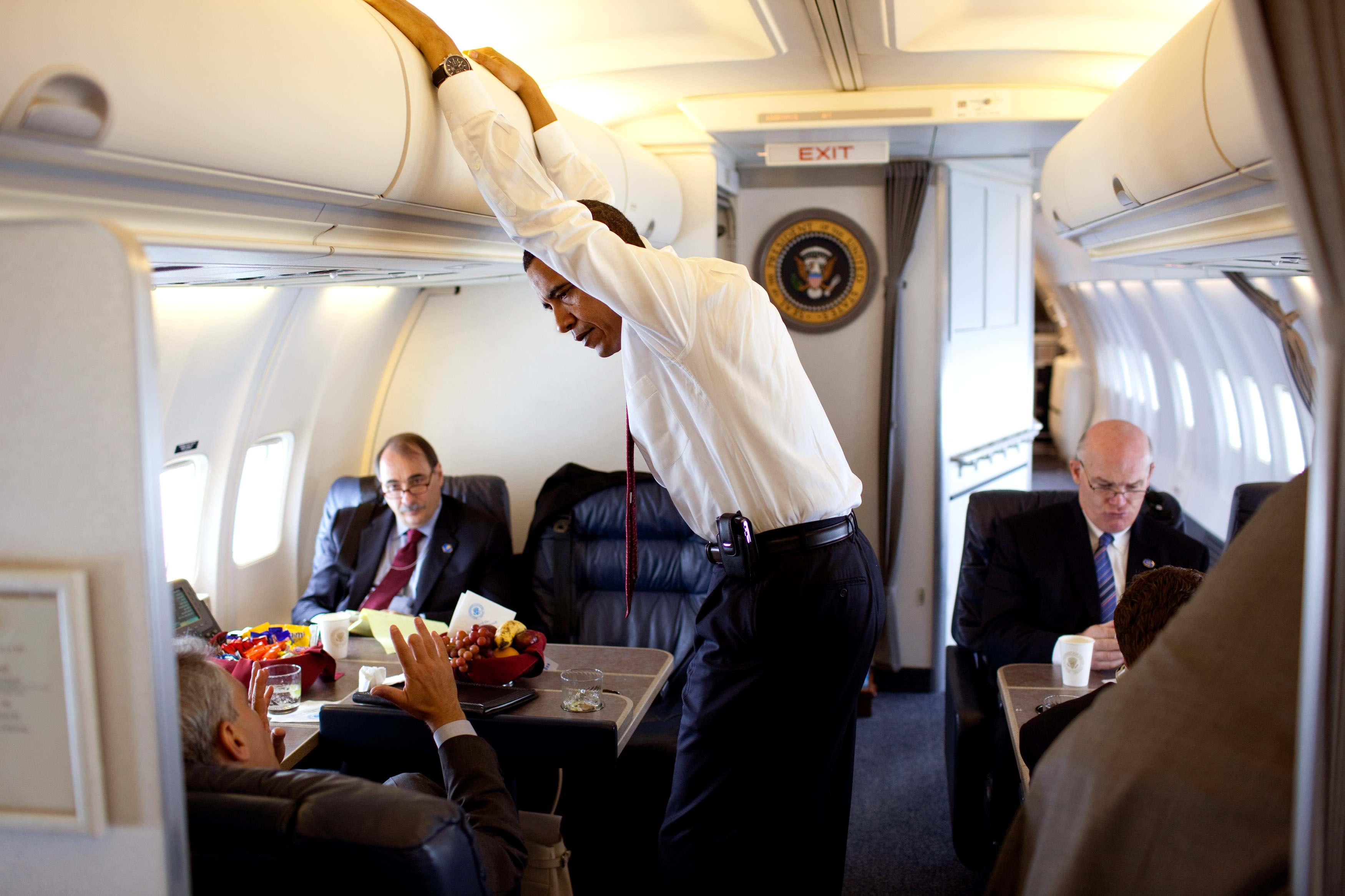 President Barack Obama talks with White House Chief of Staff Rahm Emanuel and Senior Advisor David Axelrod during the flight from Paris to Caen, Normandy, June 6, 2009 in the Boeing C-32A (usually the Vice President and First Family airplane) being used as Air Force One.